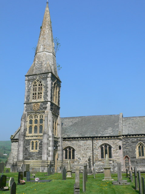 St Beuno's Church, Gwyddelwern Victorian spire at St Beuno's, built in the 1880's. In need of a bit of springcleaning to get rid of the trees growing out of it.